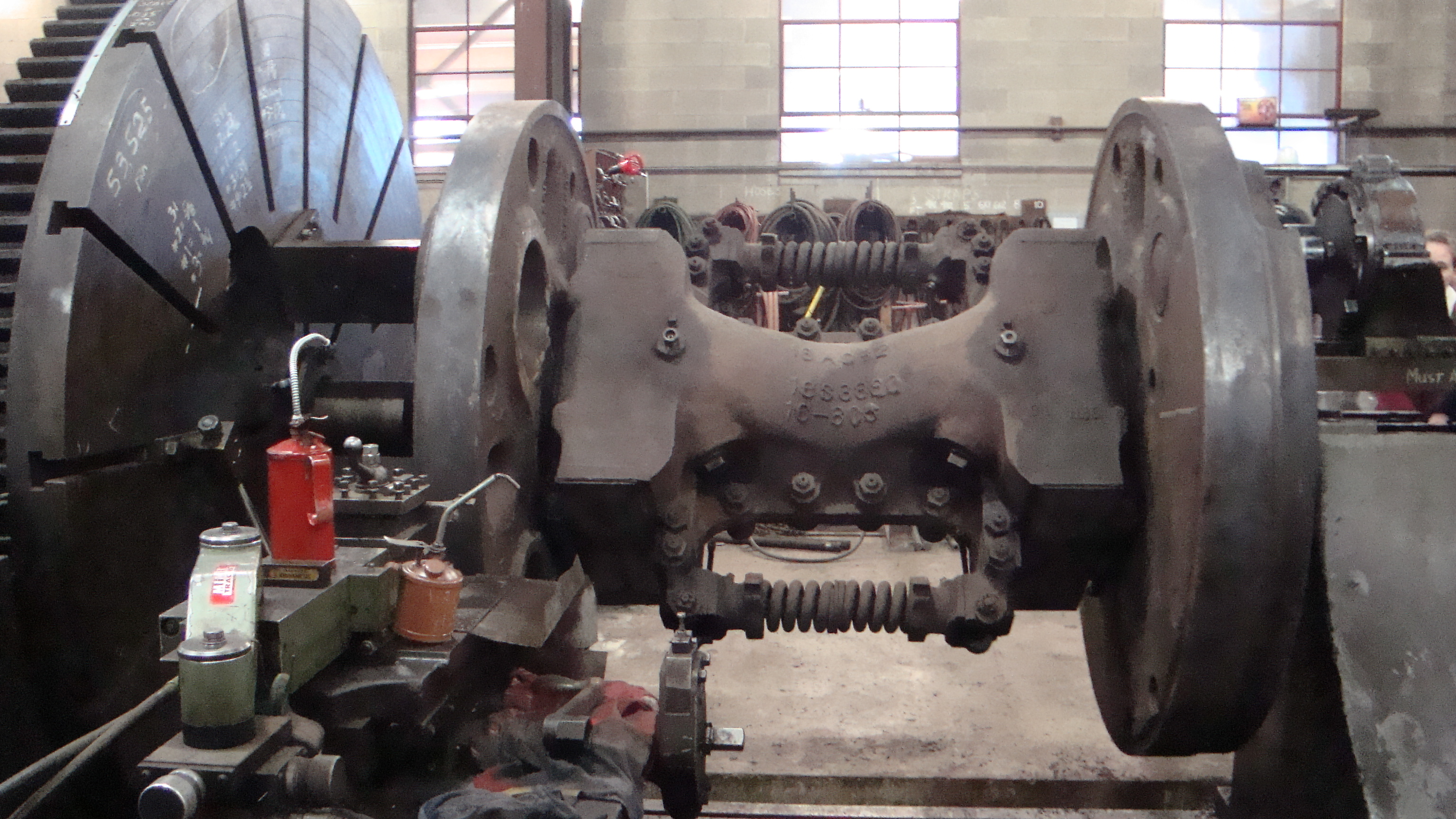 Union Pacific 4014's drivers.